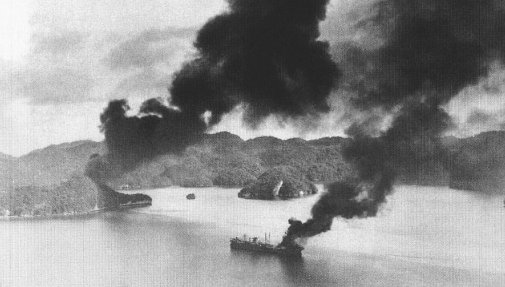 The Japanese merchant ship Nagisan Maru burns in the Palau Islands. The ship was sunk during the U.S. Navy's "Operation Desecrate One" by three Grumman TBM-1C Avengers of Torpedo Squadron 31 (VT-31) from the light aircraft carrier USS Cabot (CVL-28). The second smoke column is from one of the Avengers which was shot down during the attack. The crew, LTJG Jarrel Scott Jenkins, Aviation Radioman Louis James Sumers and Aviation Machinist’s Mate 1st Class Thomas B. Conle, was killed.